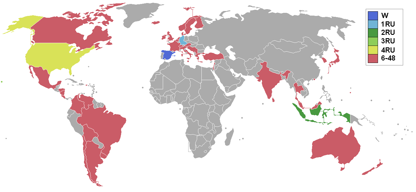 Miss International 1977 results map